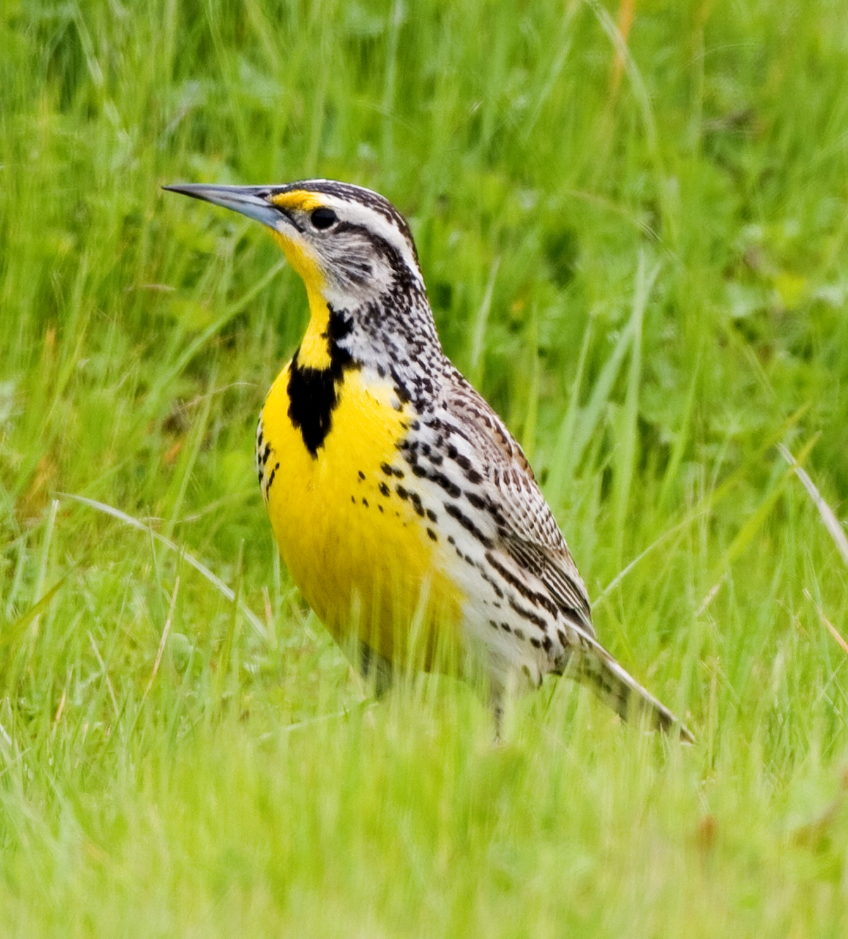 Western Meadowlark (Sturnella neglecta). Taken on Turri Road from the car with a Canon 500mm f/4L and 40D. Kirk window mount and Wimberley Head.